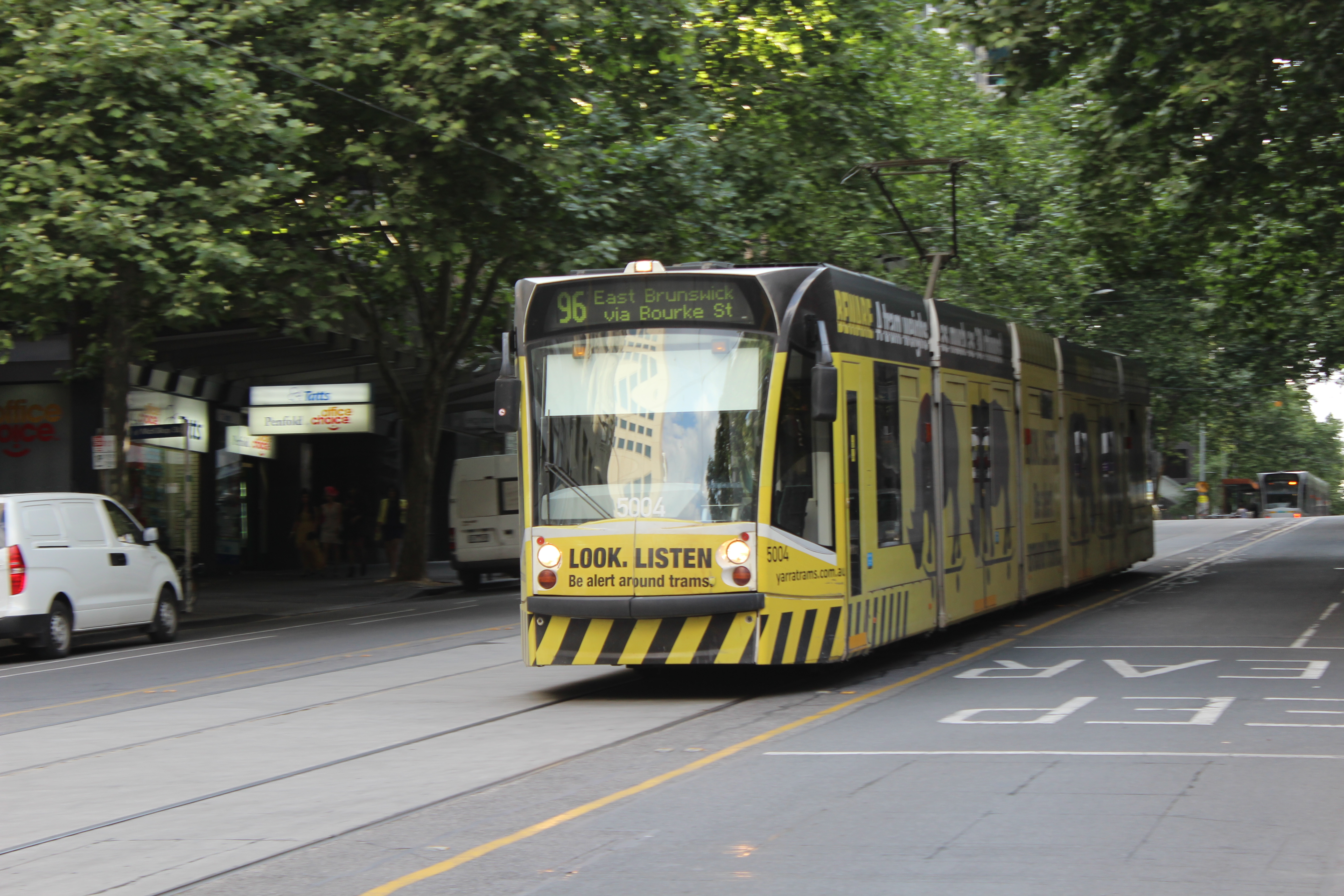 D2 5004 in Bourke Street operating a route 96 service to East Brunswick, 2012.